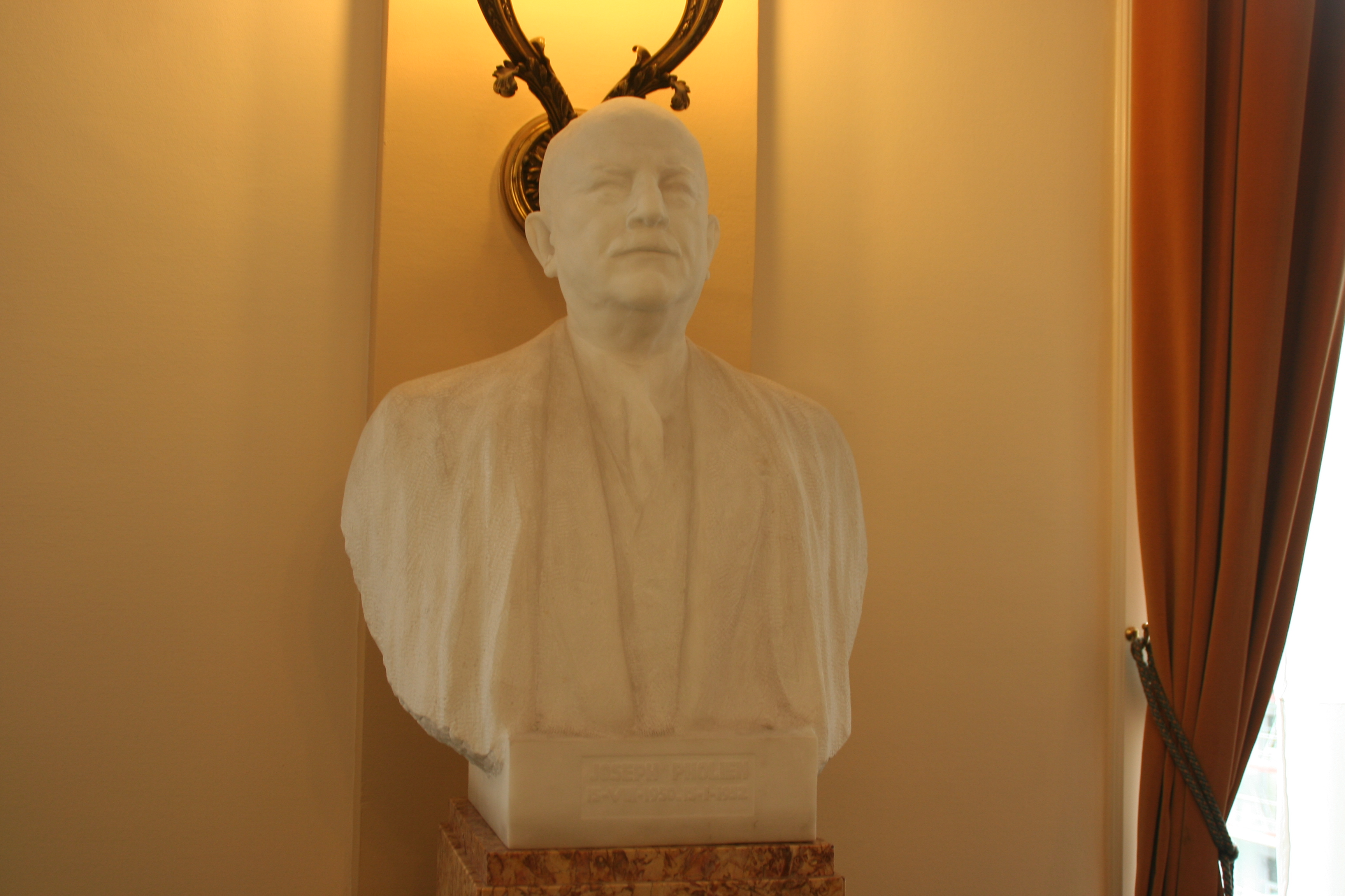 Bust of Joseph Pholien in the Palais de la Nation in Brussels, Belgium.